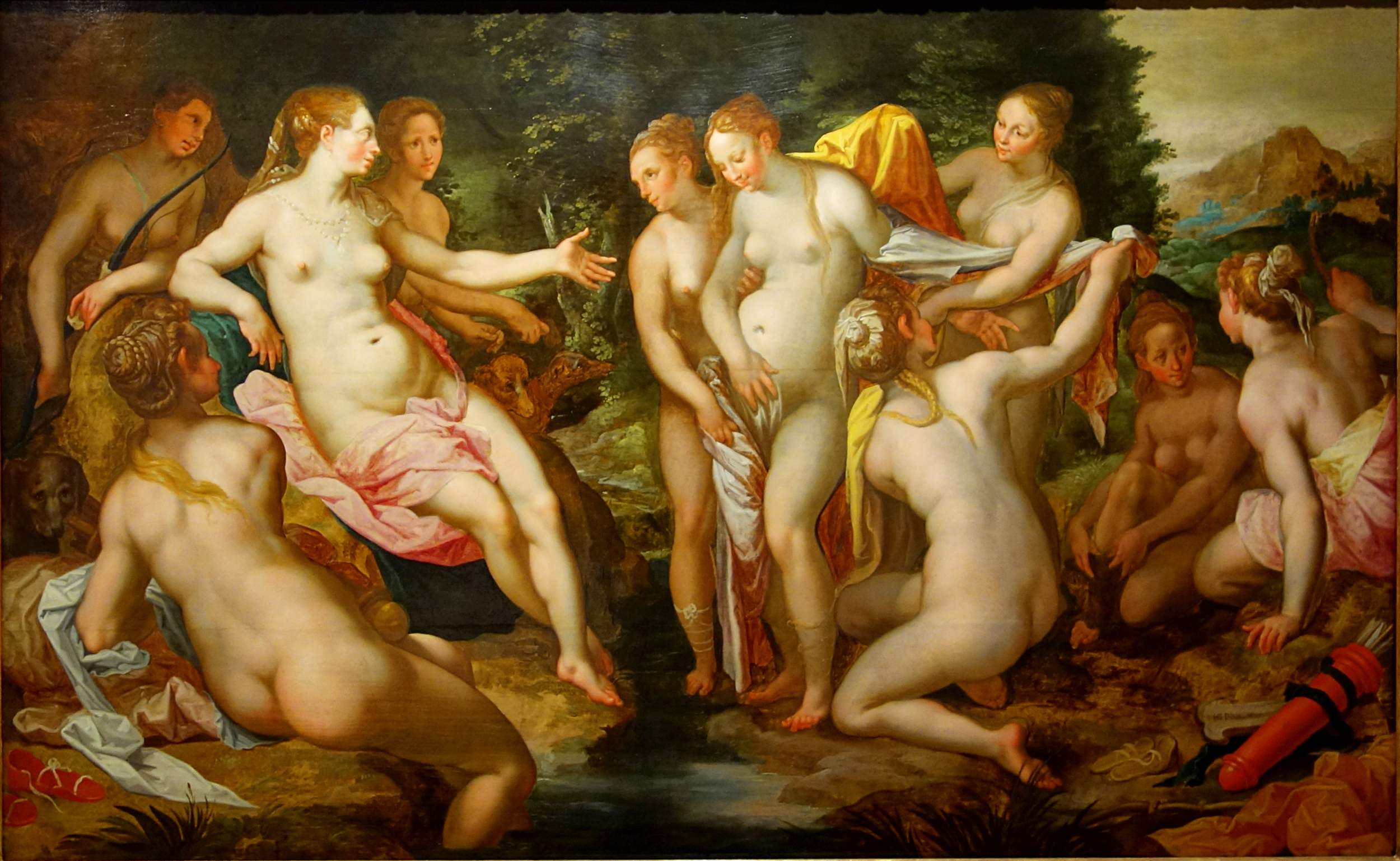 Diana Discovers Callisto's Pregnancy.